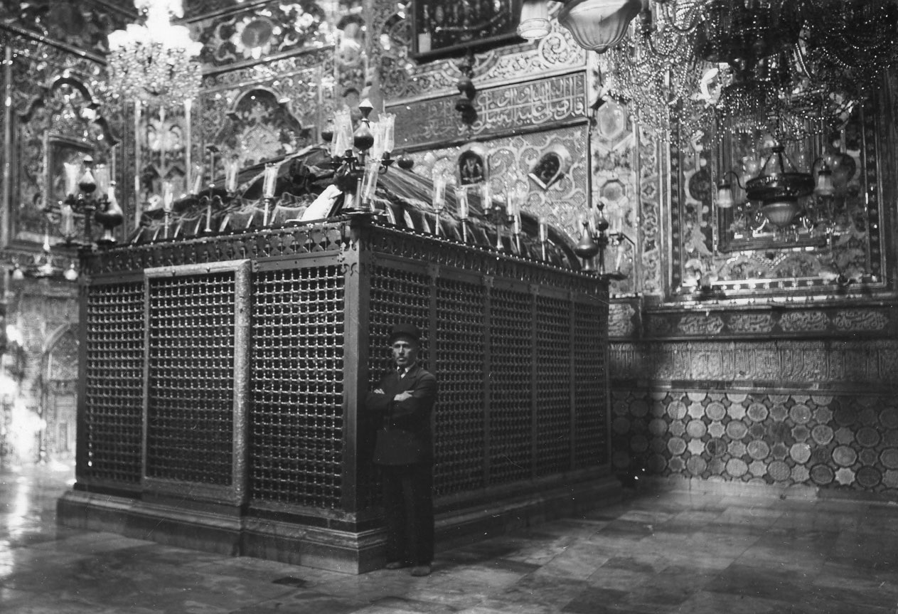 Zarih-e Fouladi, Imam Reza shrine - 1936 main page